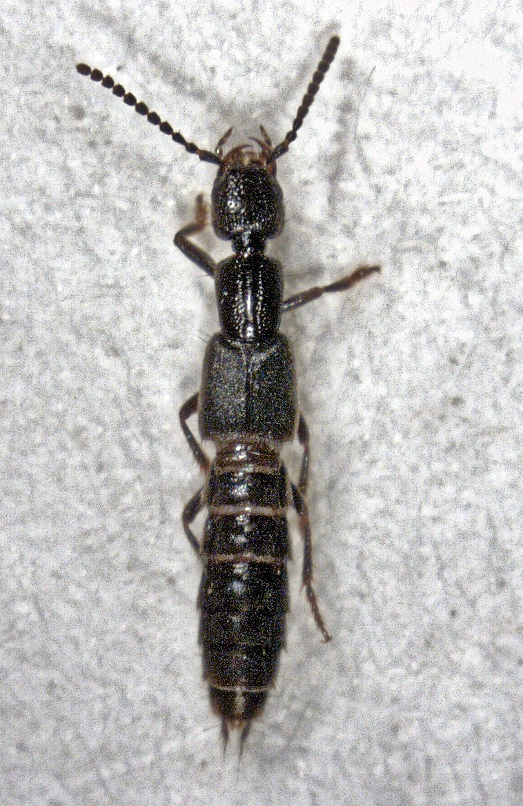 adult Cafius algophilus